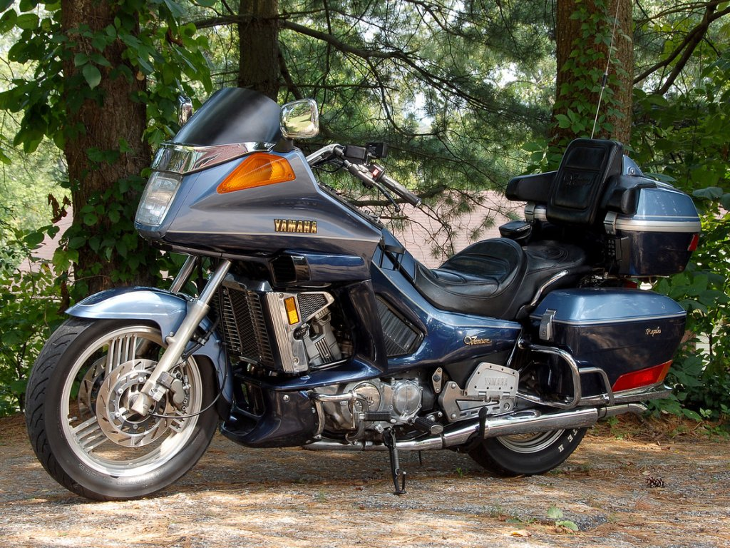 1990 Yamaha Venture Royale